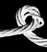 Coca_Steel_Cable_DAMAGED